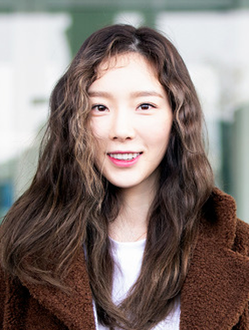 Kim Tae-yeon at Incheon Airport on January 11, 2019.